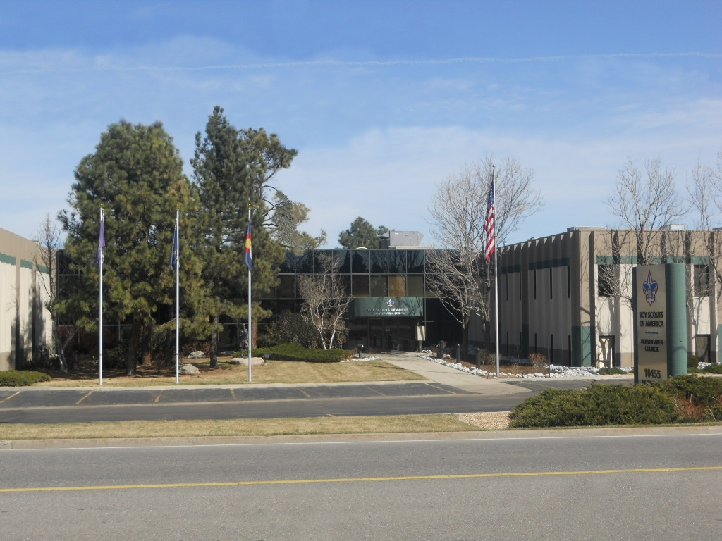 Street view of the headquarters of the Denver Area Council of Boy Scouts of America facing north from 6th Avenue in Lakewood, Colorado